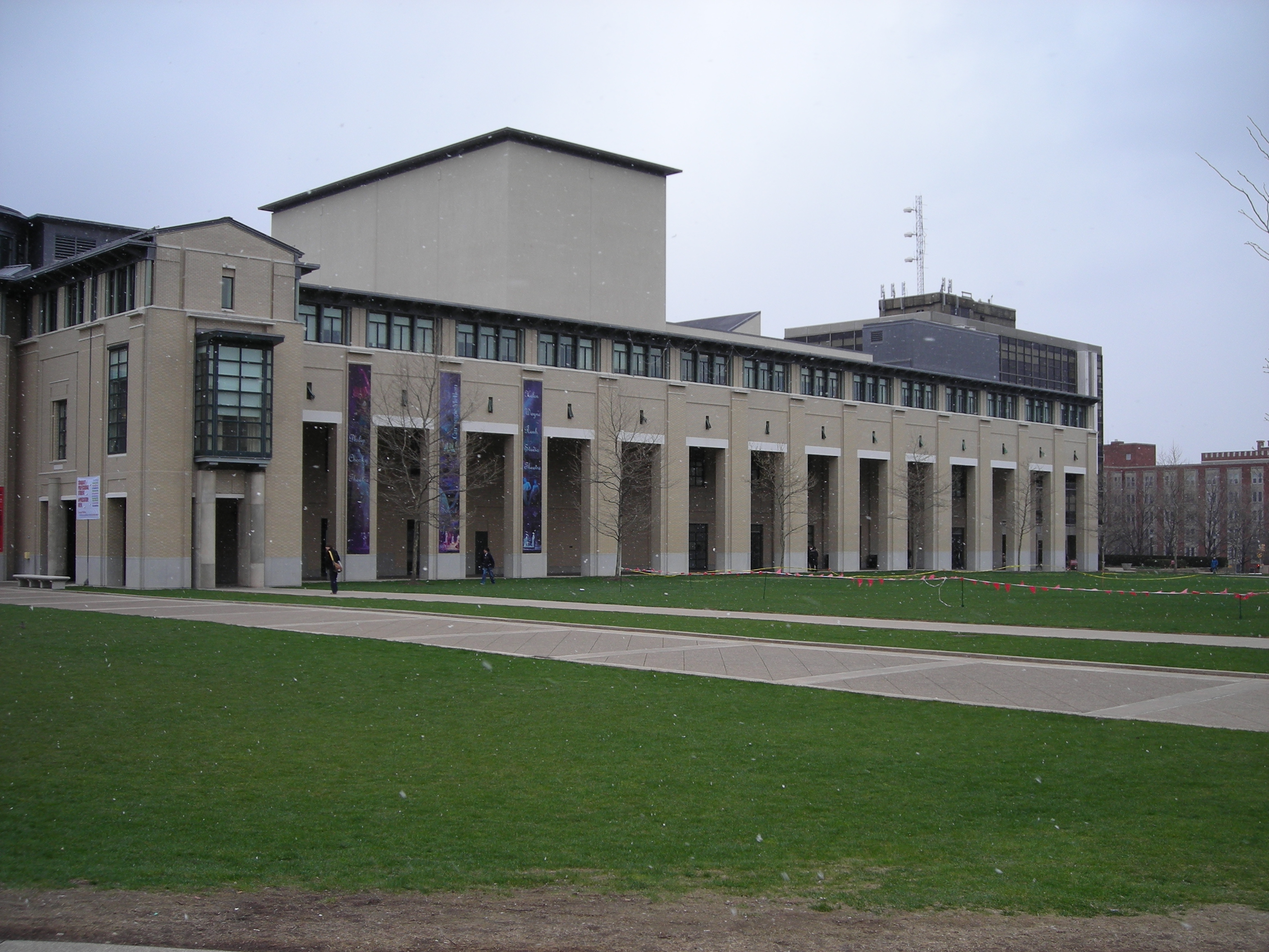 Carnegie Mellon University Purnell Center for the Arts